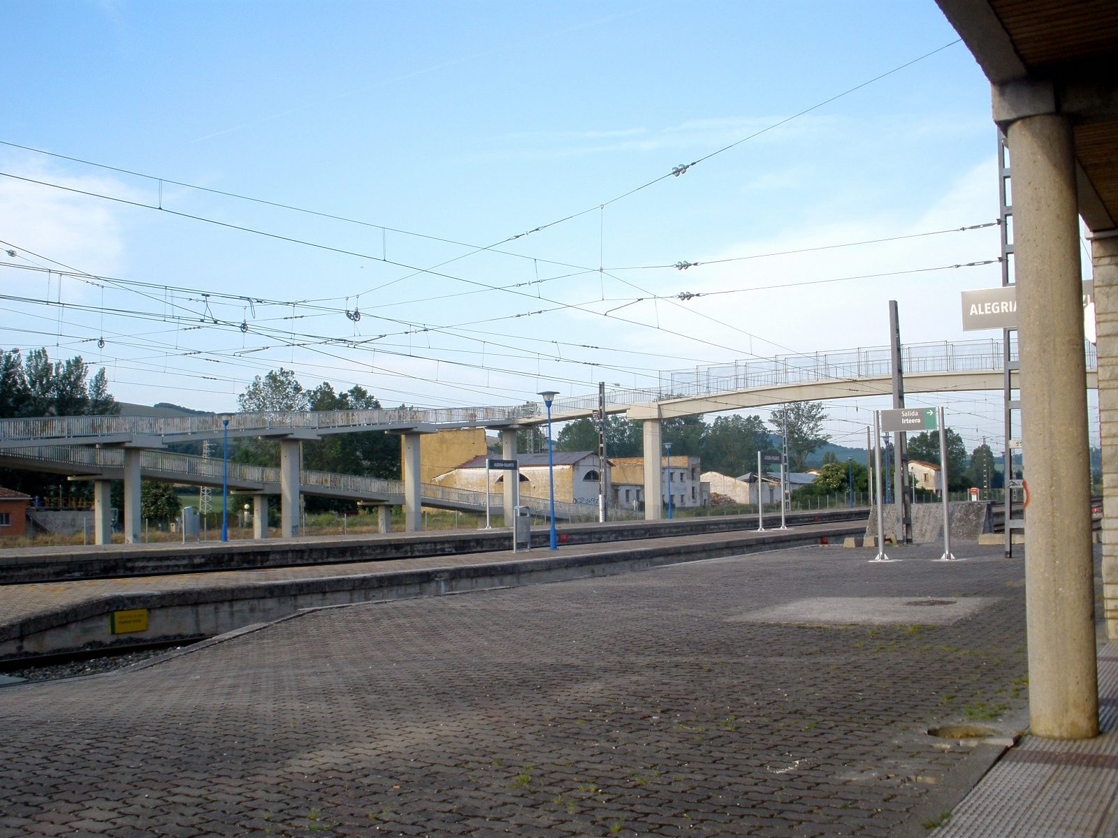 Estación de tren de Alegría-Dulantzi (Álava, País Vasco, España)